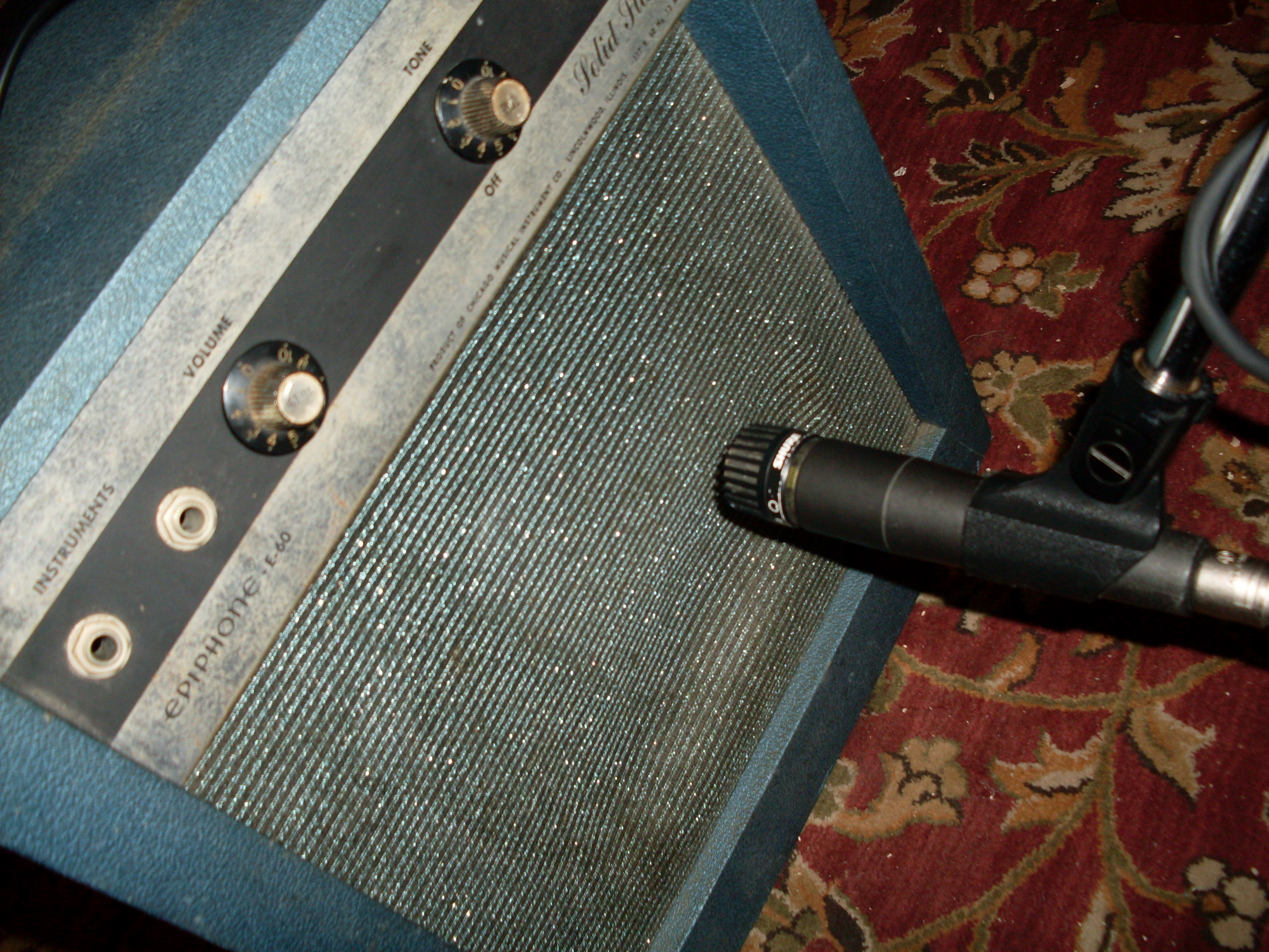 Epiphone E-60 miked up with a Shure SM 57.